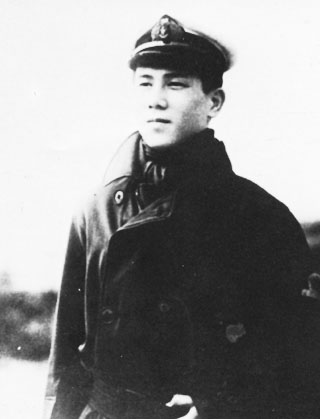 Newly commissioned Ensign Junichi Sasai in May 1941.